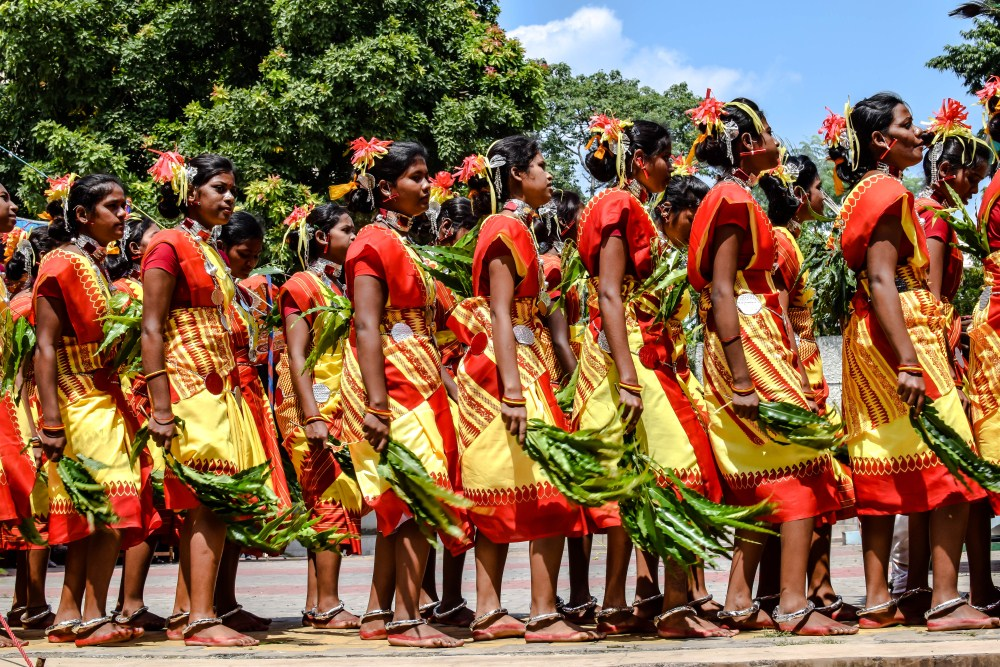 Celebration of KARMA Pooja in Ranchi, Jharkhand